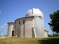 Tican Observatory, Croatia.